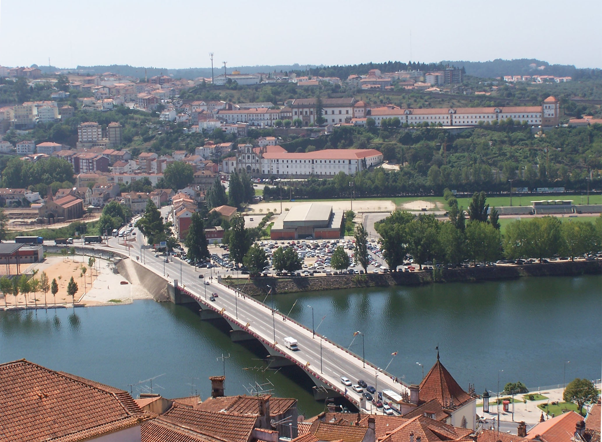 Santa Clara bridge over the Mondego in Coimbra, Portugal.